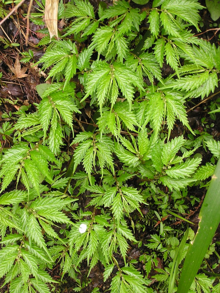 Elatostema umbellatum var. majus. Picture taken on the ground of a forest in Sanzen-in near Kyoto.